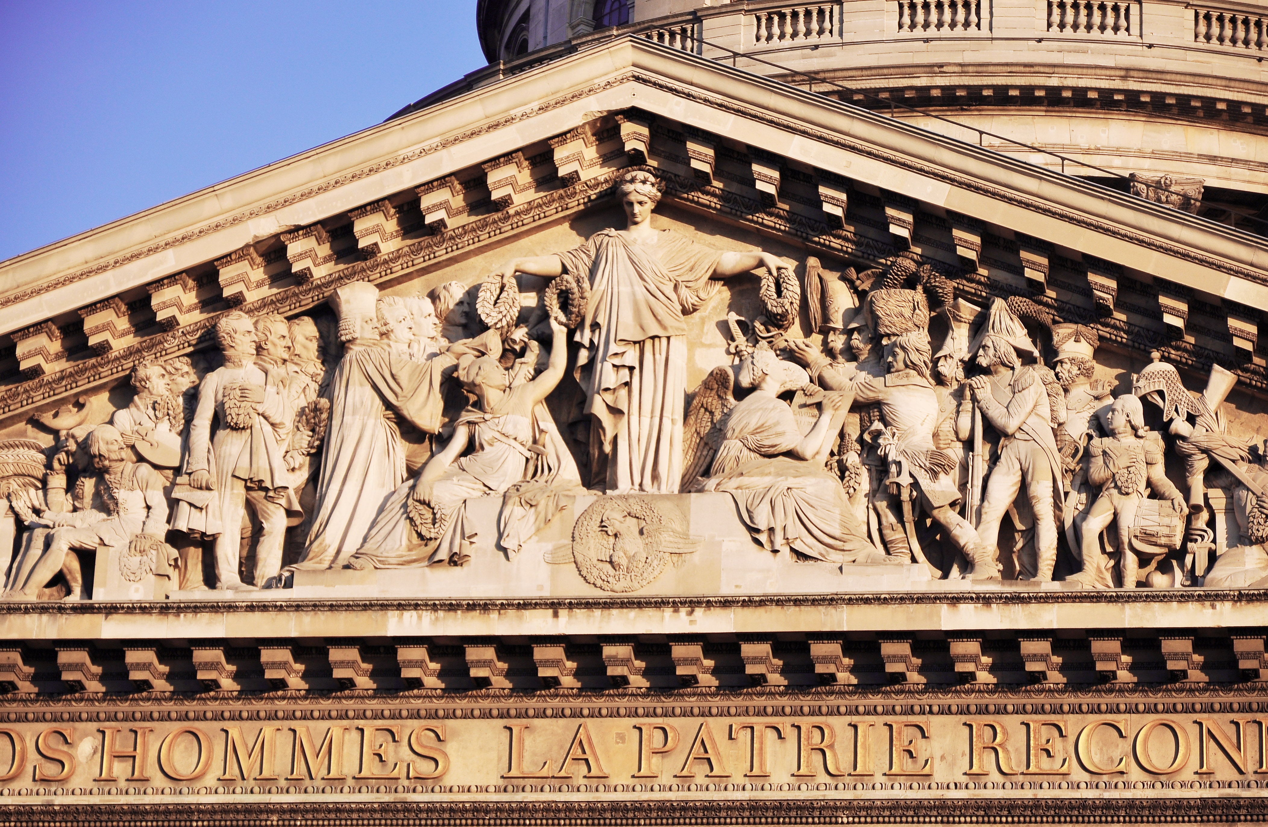 Pantheon of Paris located in the 5th arrondissement of Paris, France.